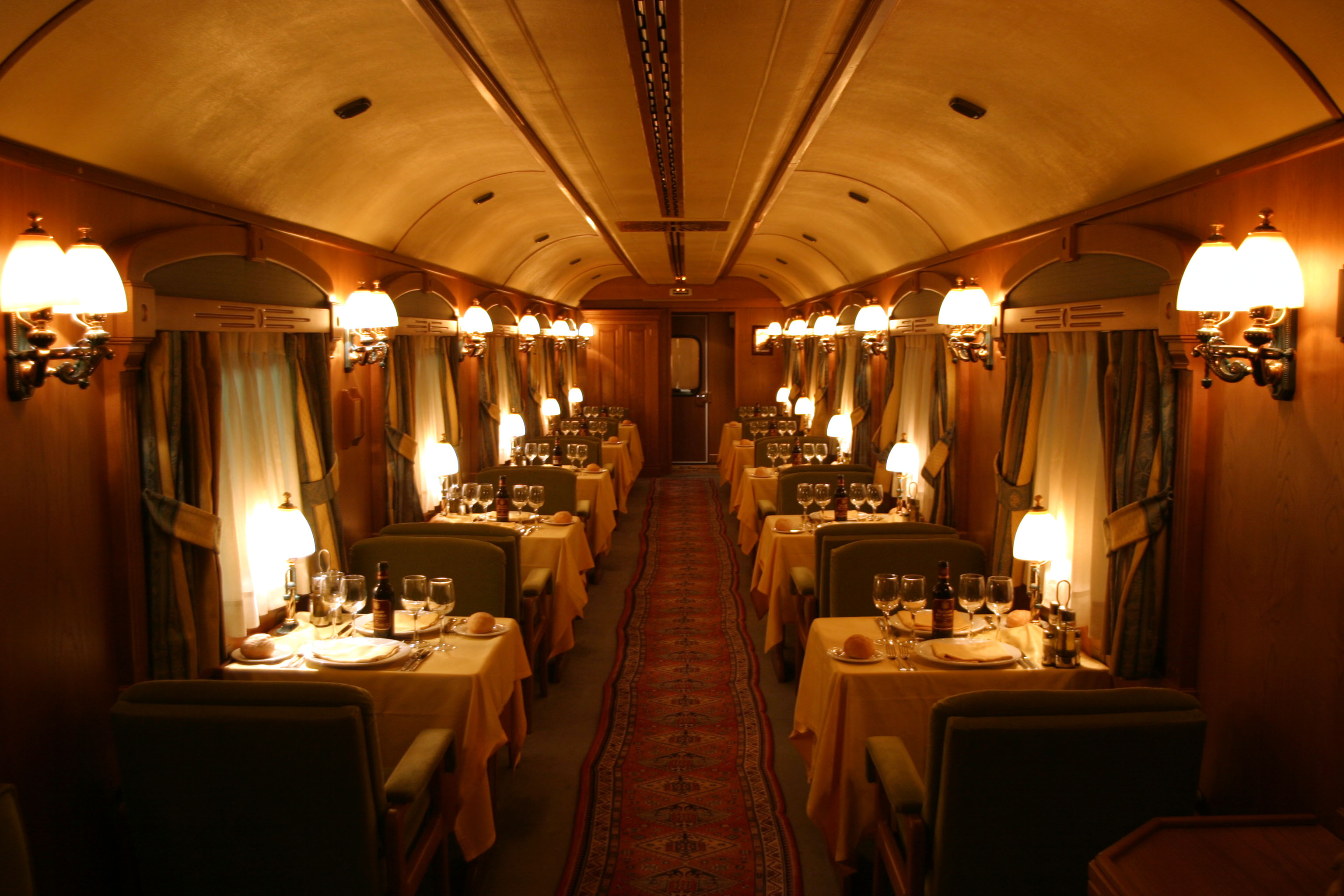 Fine meals on board and full dining in local restaurants en route offer the best of northern Spanish gastronomy. Either going from Santiago de Compostela to Leon, or from Leon to Santiago, the magic of northern Spain awaits the traveller; from the lands of Castile and Leon, to the shores of the Bay of Biscay. Gastronomy, art, monuments and landscapes are presented to the voyager from the comfort of a five-star train hotel, El Transcantabrico.